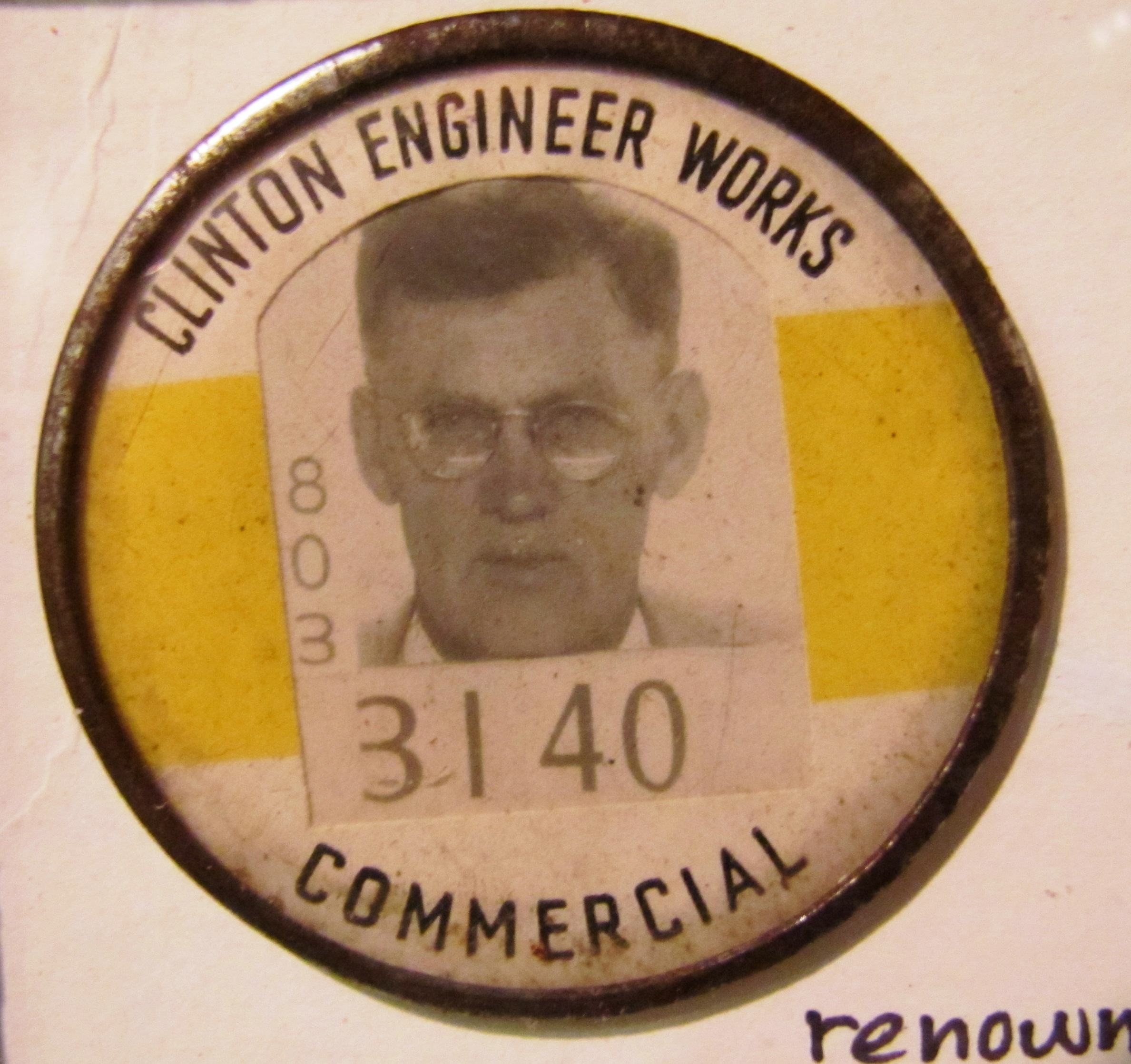 Oak Ridge security badge of Dr. Fred Stone, Sr., on display at the Museum of Appalachia in Norris, Tennessee, USA. Oak Ridge's Manhattan Project installations, which helped build the world's first atomic bomb in the 1940s, were known to the public as the "Clinton Engineer Works." Stone examined new employees of the Stone and Webster Construction Company, which built many of the project's facilities. This badge is on display on the second floor of the museum's "Appalachian Hall of Fame" building.